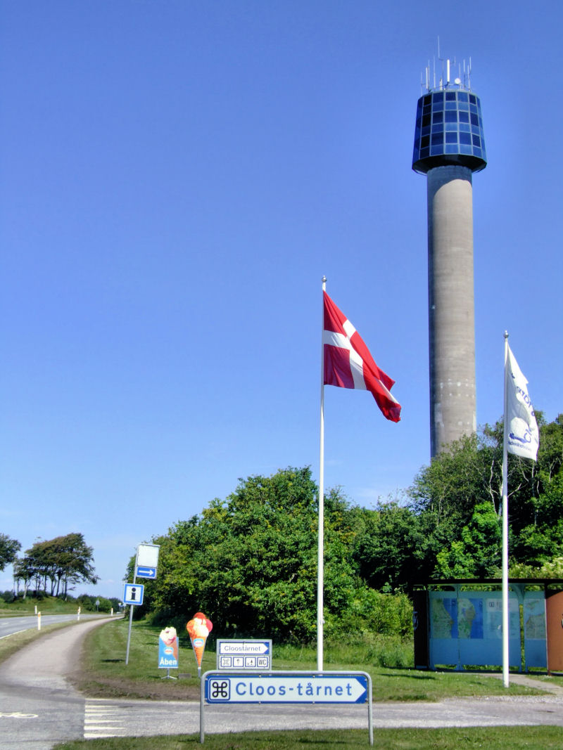 The danish tower ‘Cloostårnet’ situated 2 km outside the danish town 'Frederikshavn' in the northern part of Jutland.